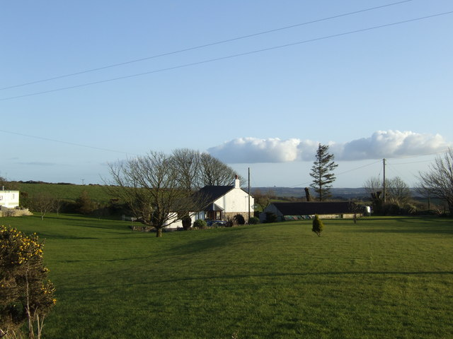 Little Carnebone Viewed from the lane to Carnebone Farm